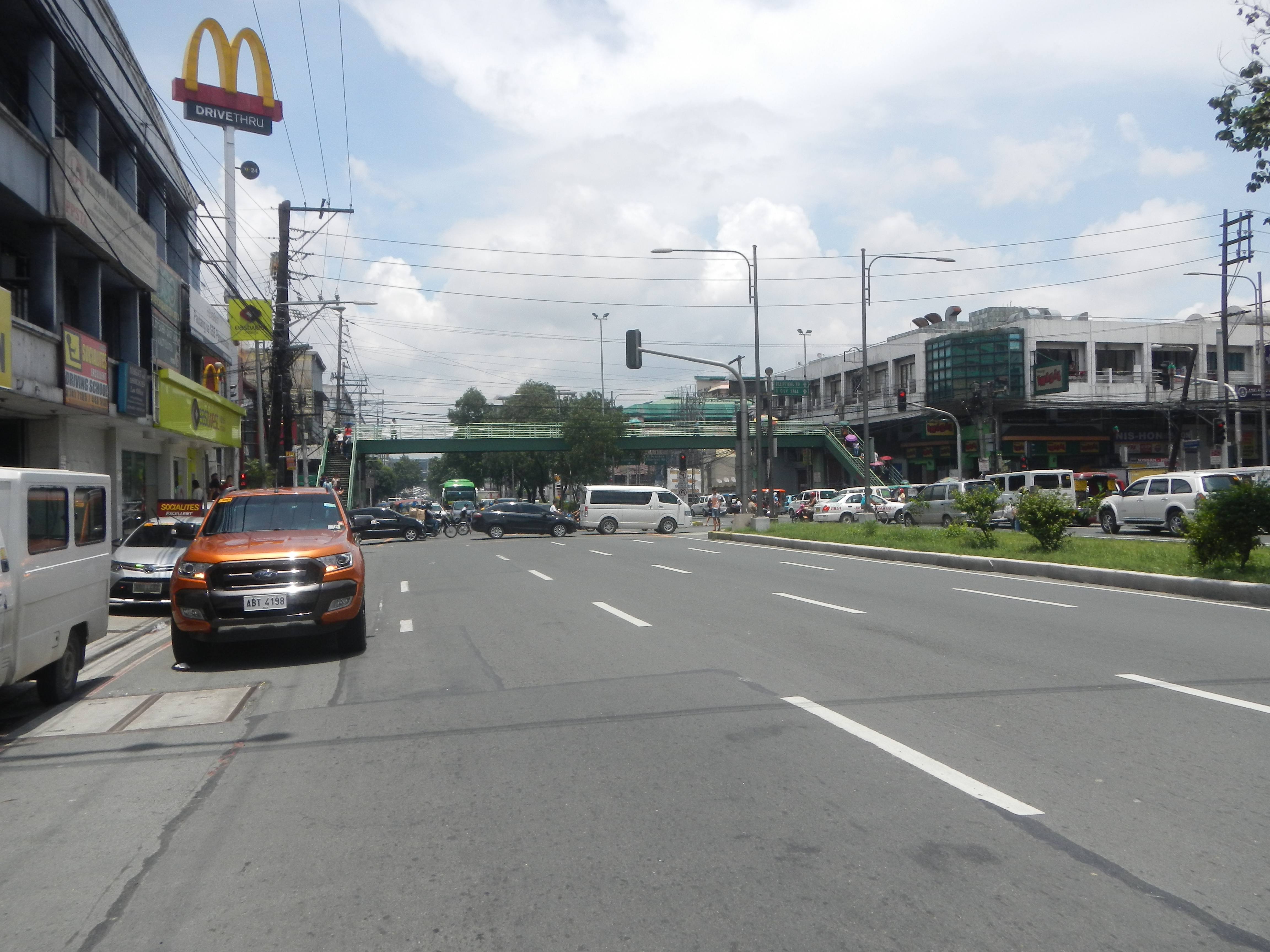 Quezon Avenue corner Banawe Avenue corner Agno Street in Legislative districts of Quezon City Barangays of Quezon City, District 4, Area 22, Barangay Doña Josefa, beside Barangays Doña Aurora and Don Manuel, beside Barangays Tatalon in front of Santo Domingo, and beside Lourdes, Quezon City Philippine Public School Teachers Association (PPSTA) founded by Mr. Ricardo Castro in the 1930's (Note: Judge Florentino Floro, the owner, to repeat, Donor Florentino Floro of all these photos hereby donate gratuitously, freely and unconditionally all these photos to and for Wikimedia Commons, exclusively, for public use of the public domain, and again without any condition whatsoever).